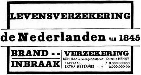 Advertisement De Nederlanden van 1845 (insurance company).